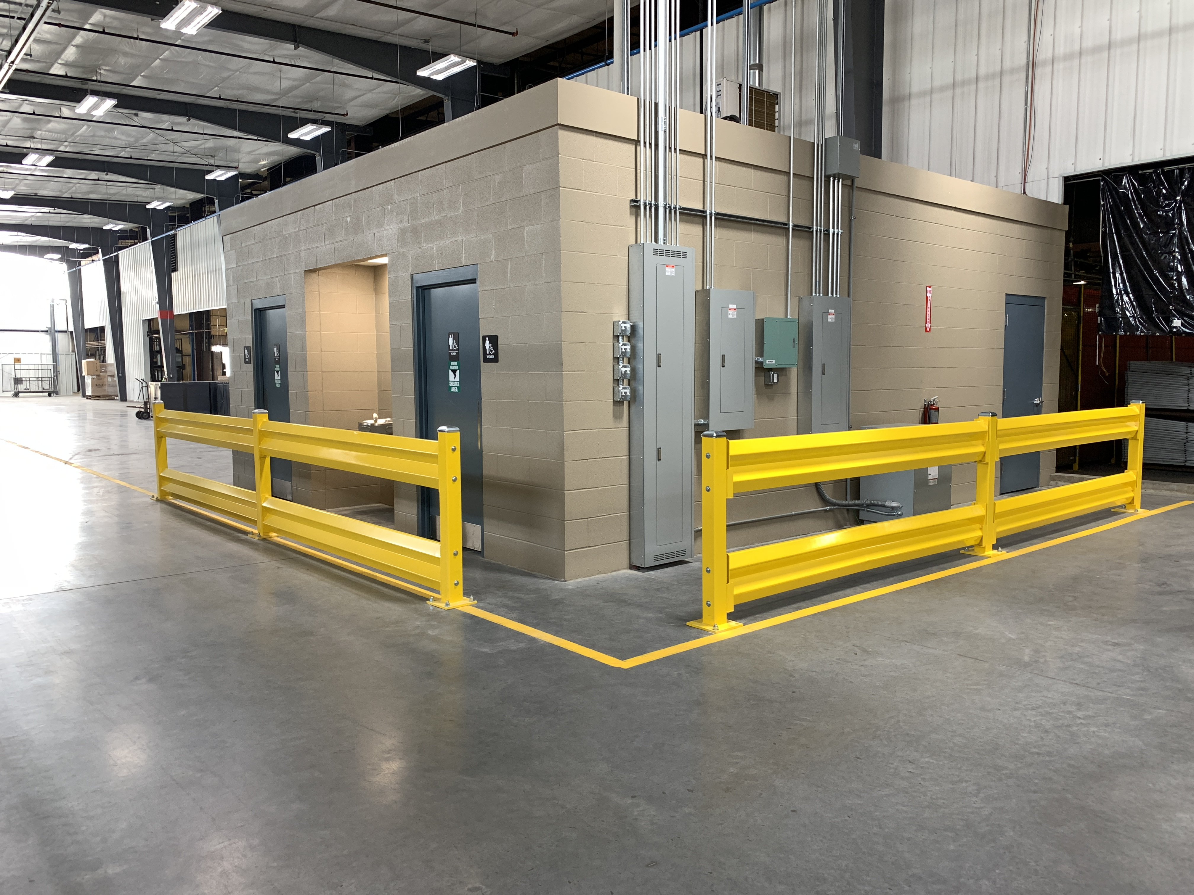 Yellow facility GuardRail protecting bathroom in warehouse